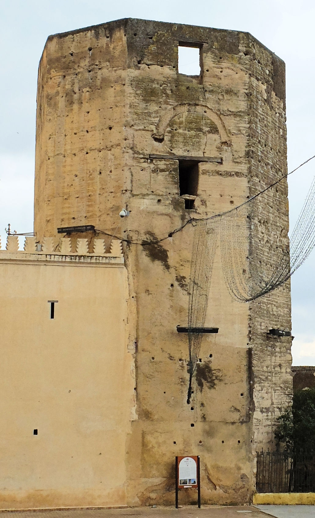 Bab Segma, view towards south tower. A dark rectangular opening in the upper part of the tower is where the water aqueduct for the Marinid Gardens once passed. The semi-circular form above this is thought to have been the vaulted roof of a covered passage running on top of the aqueduct (either in Marinid or later times, I'm not sure).